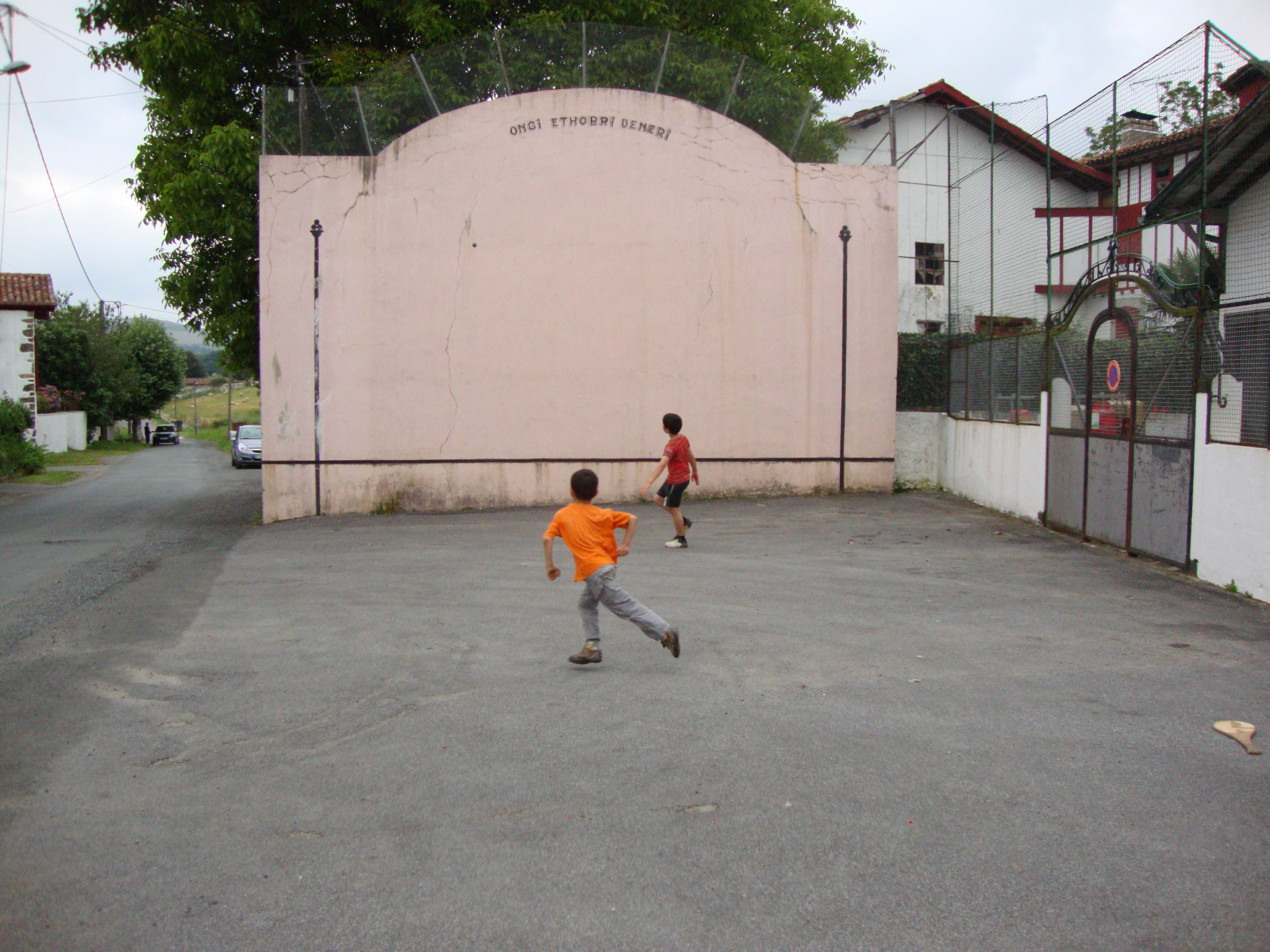 Mendionde Attissane, Fronton; children playing pelota main nue.